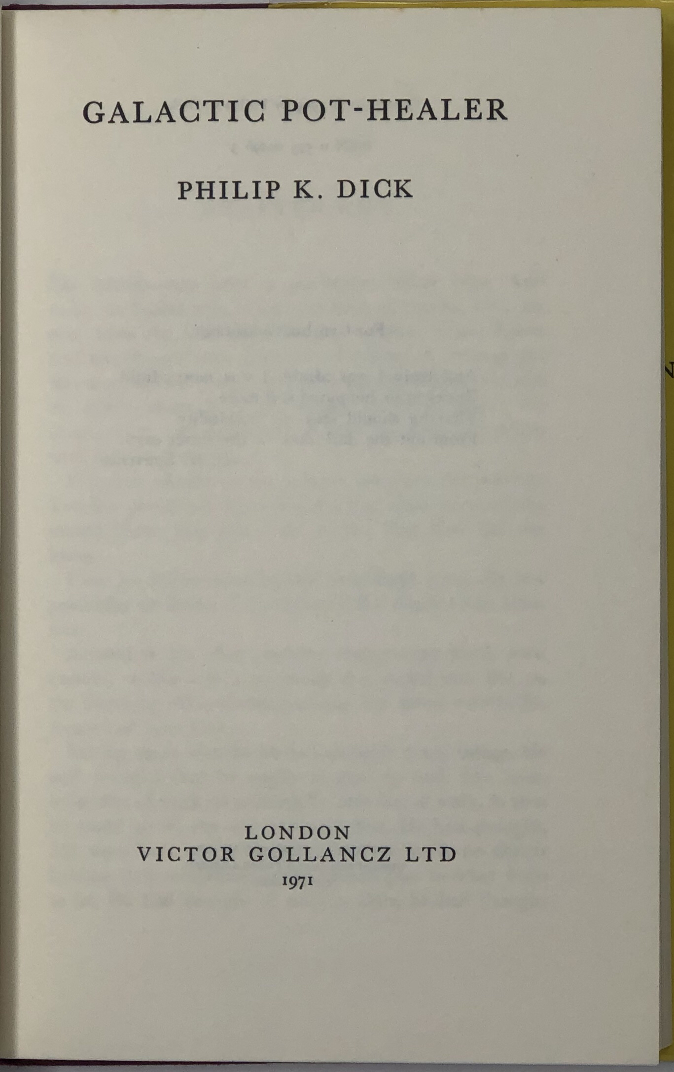 Galactic Pot-Healer